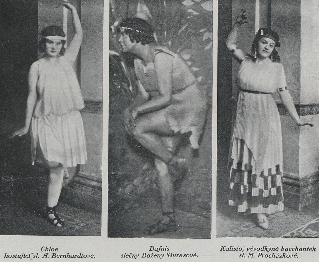 Singers from the 1914 Královské Vinohrady City Theatre (Městské divadlo Královských Vinohrad) production of Offenbach's Daphnis et Chloé - A. Bernhardtová as Chloé, Božena Durasová as Daphnis, M. Procházková as Callisto